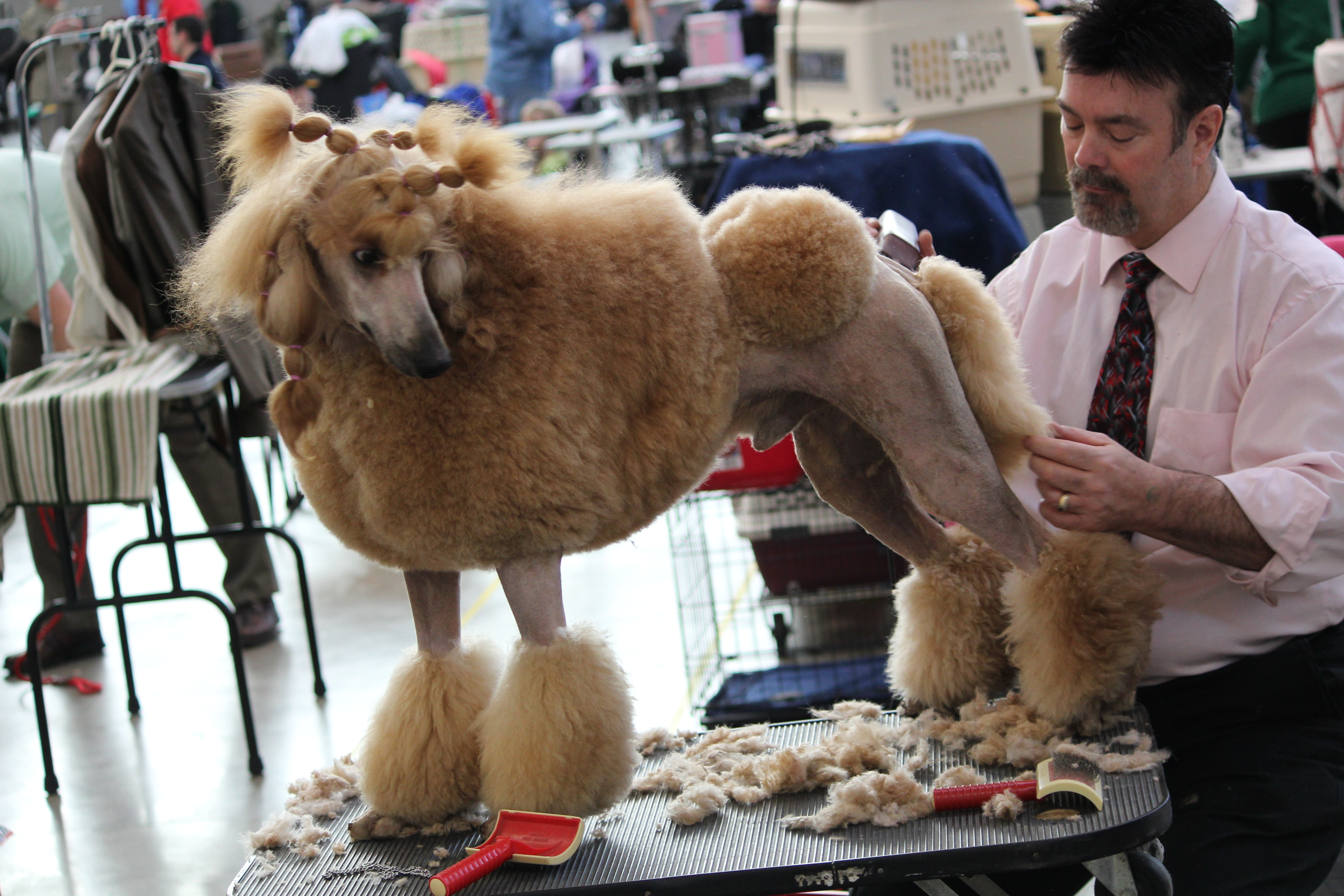 Standard Poodle at 2010 PA Kennel Assoc. Dog Show